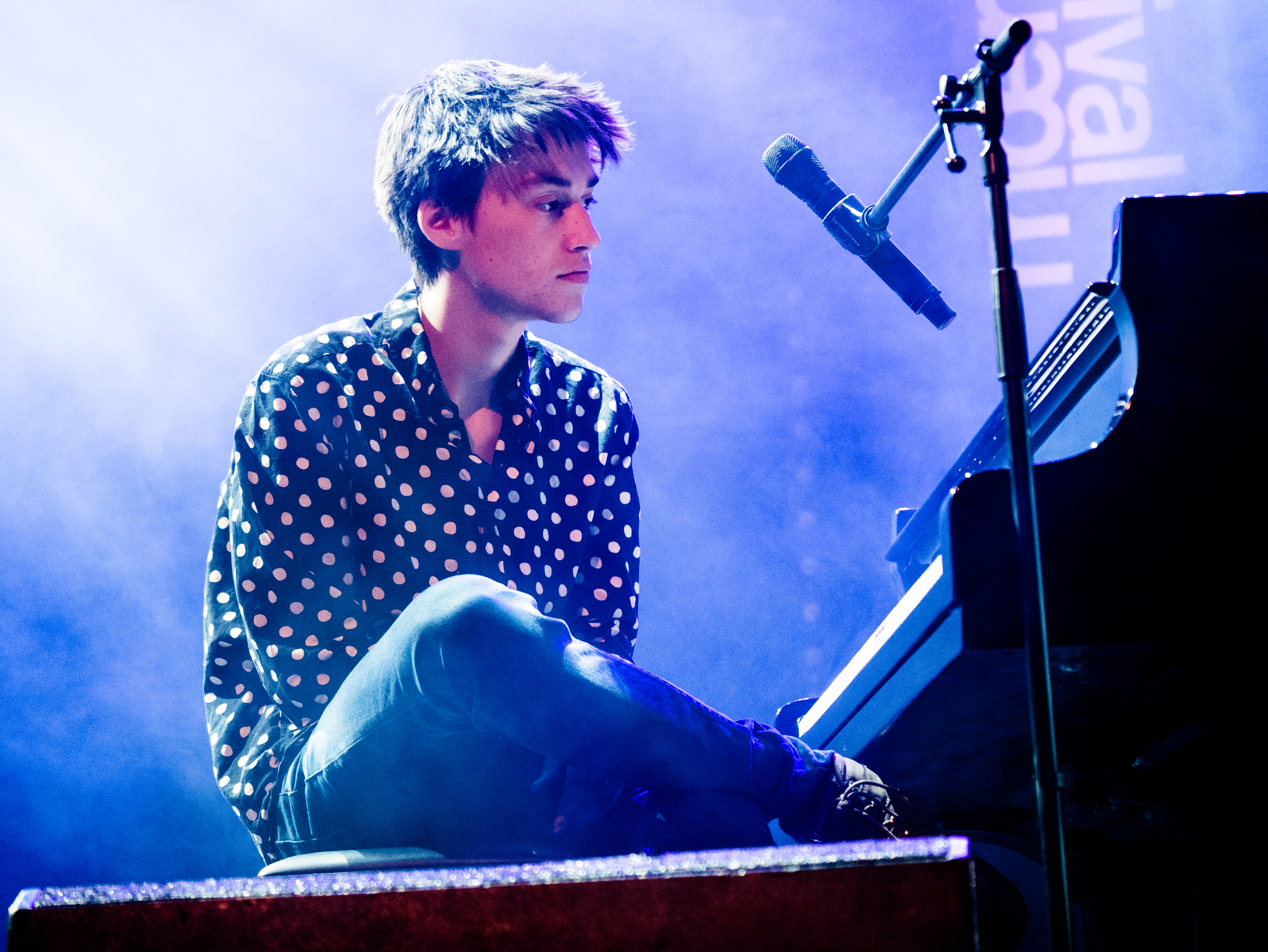 British musician Jacob Collier at the Moers Festival 2016